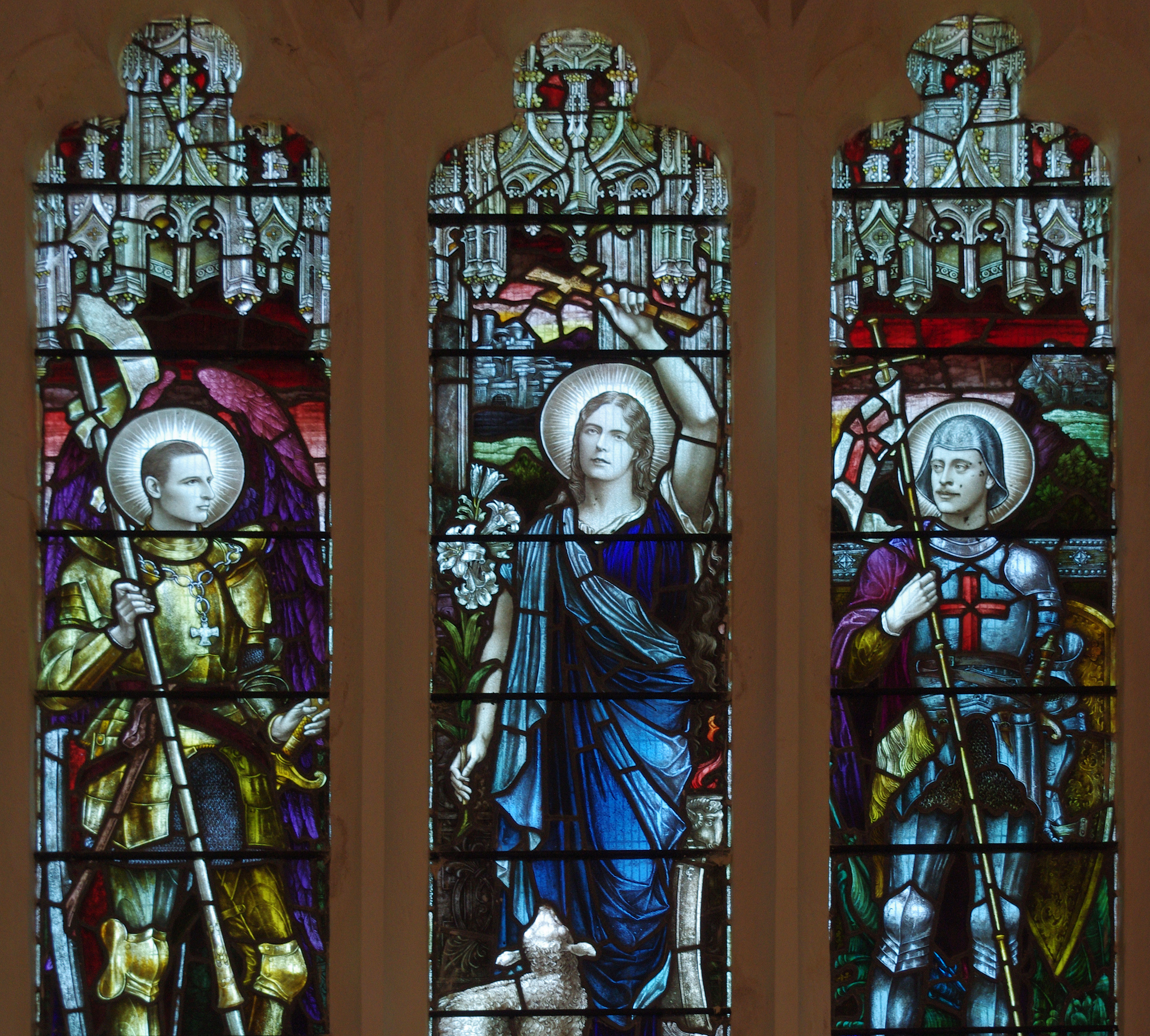 The stained glass window in Selsey Abbey, West Sussex. This is Captain John Wingfield, who died of wounds on 29 April 1915 [1]; Stephanie Agnes Wingfield, who died 9 December 1918; and Captain the Honourable Thomas Agar-Robartes MP, who died of wounds on 30 September 1915.[2] See also: [3]